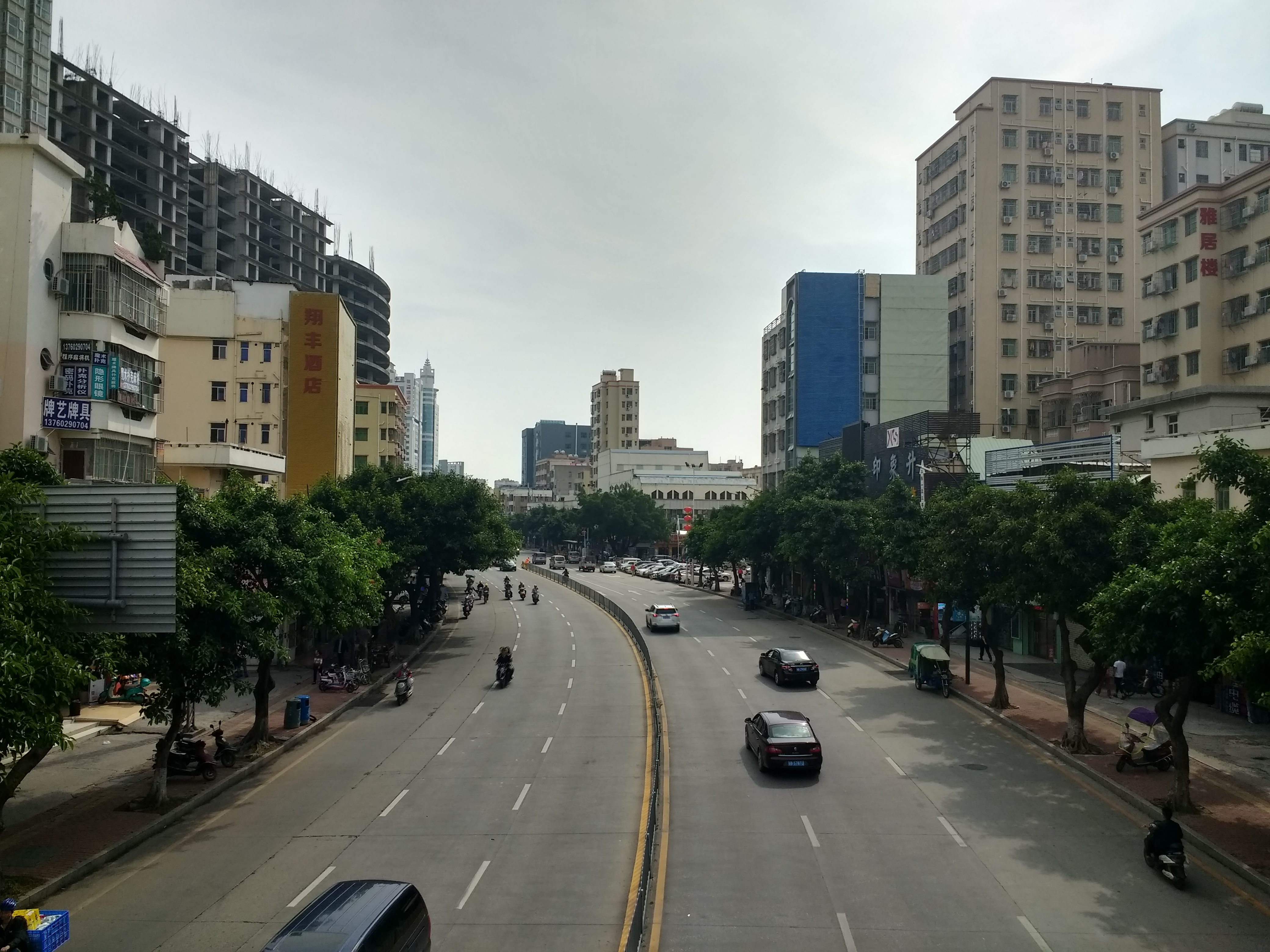 Shajing Subdistrict, Bao'an District, Shenzhen, China.